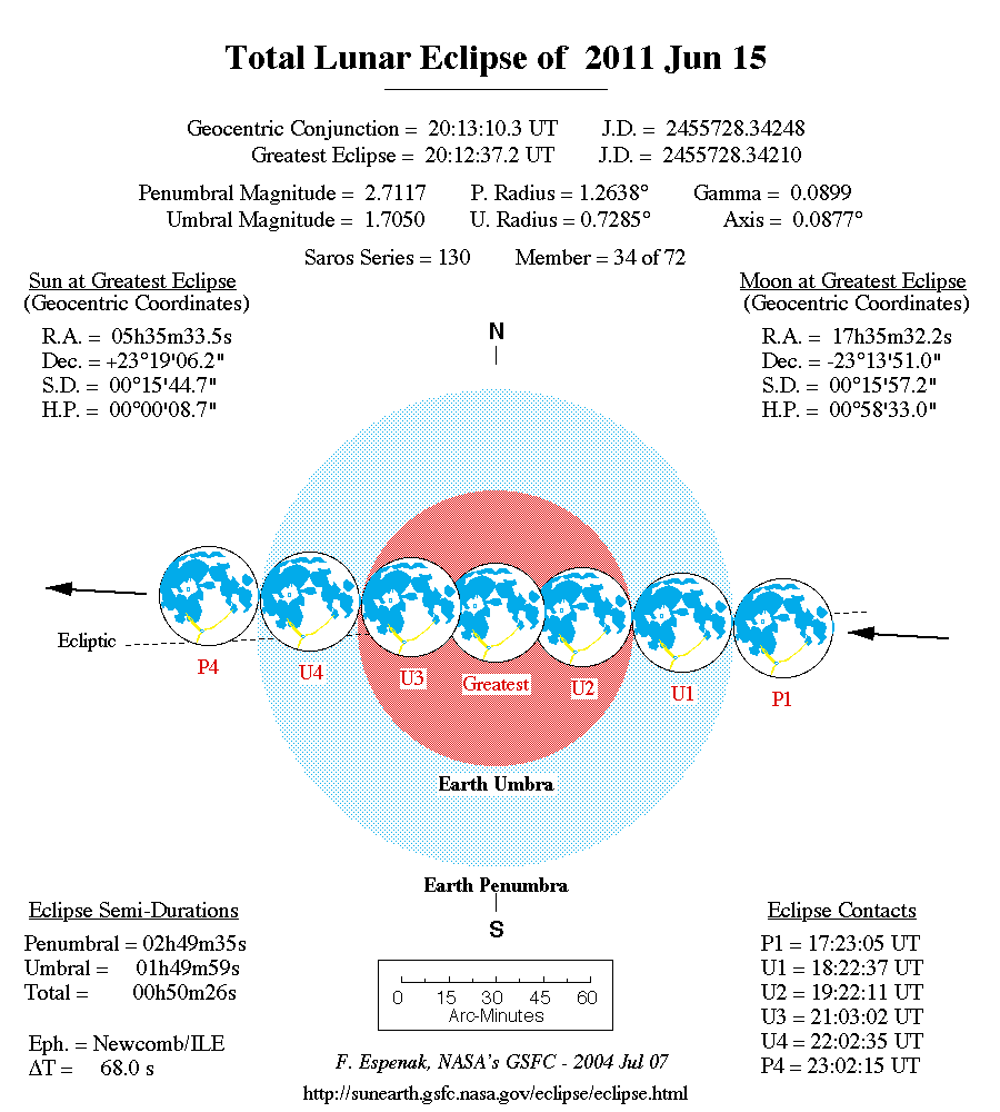 Sketch of the 2011-06-15 lunar eclipse.